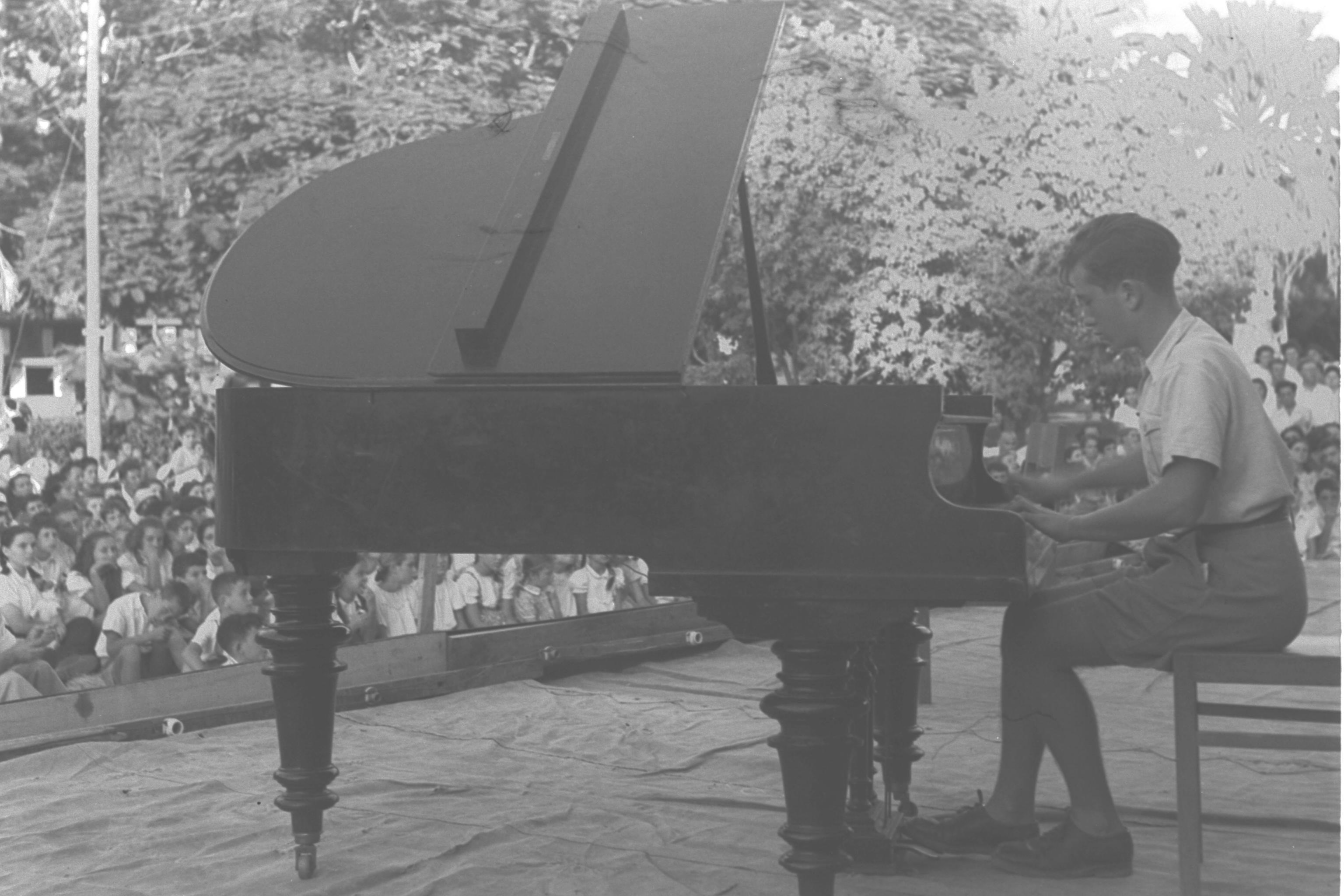 PRODIGY PIANIST SIGI WEISSENBERG PLAYING DURING THE 25TH ANNIVERSARY CELEBRATION AT KIBBUTZ DEGANIA B. טקס חגיגות 25 שנה להקמת קיבוץ דגניה ב'. בצילום, הפסנתרן הצעיר סיגי וייסנברג מופיע בפני קהל החוגגים.